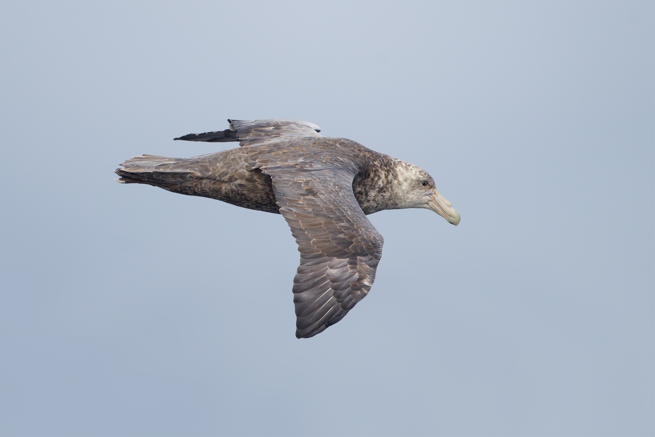 Southern Giant Petrel (Macronectes giganteus) in flight, East of the Tasman Peninsula, Tasmania, Australia